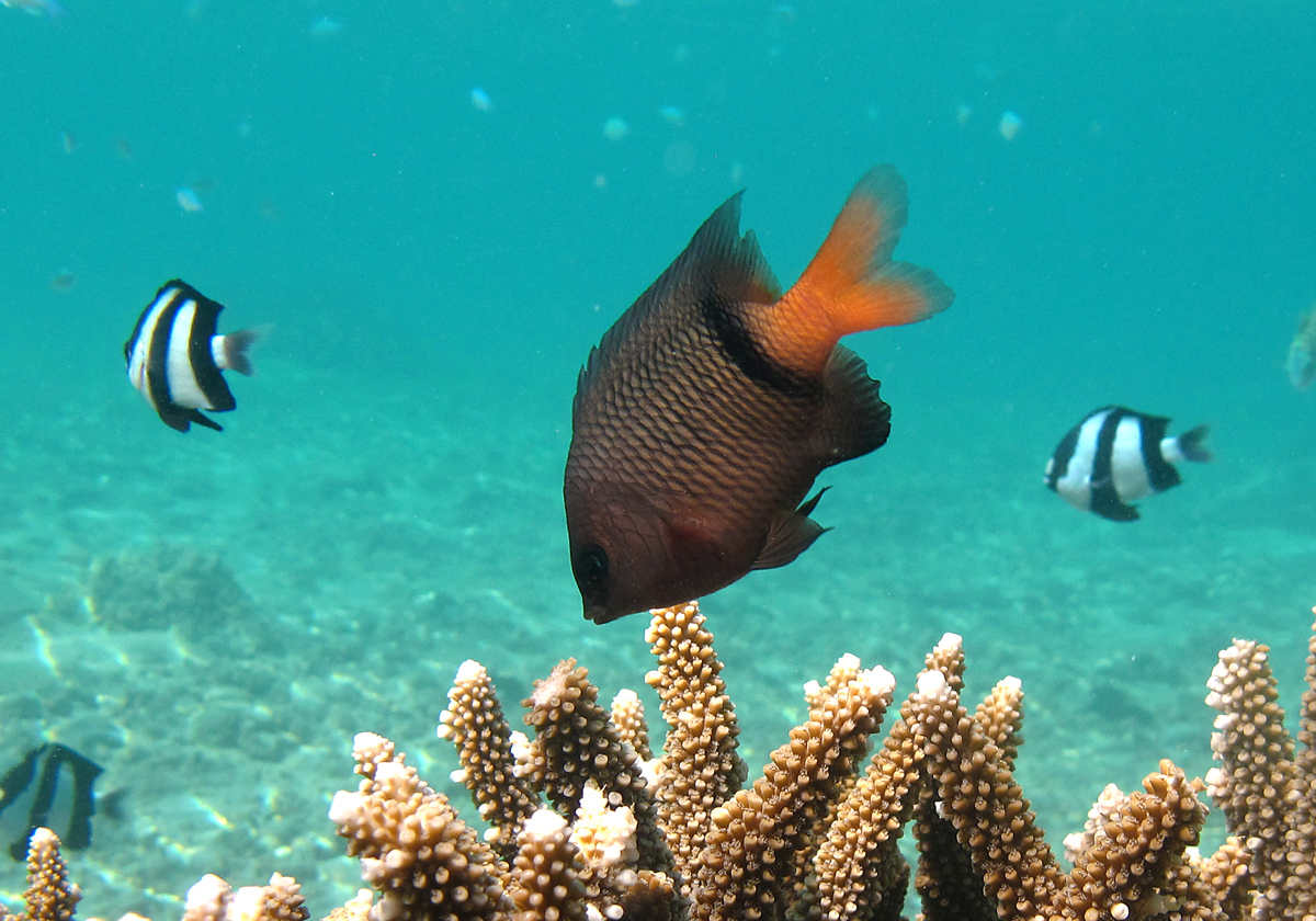 A blackbar devil (Plectroglyphidodon dickii) in Réunion island.